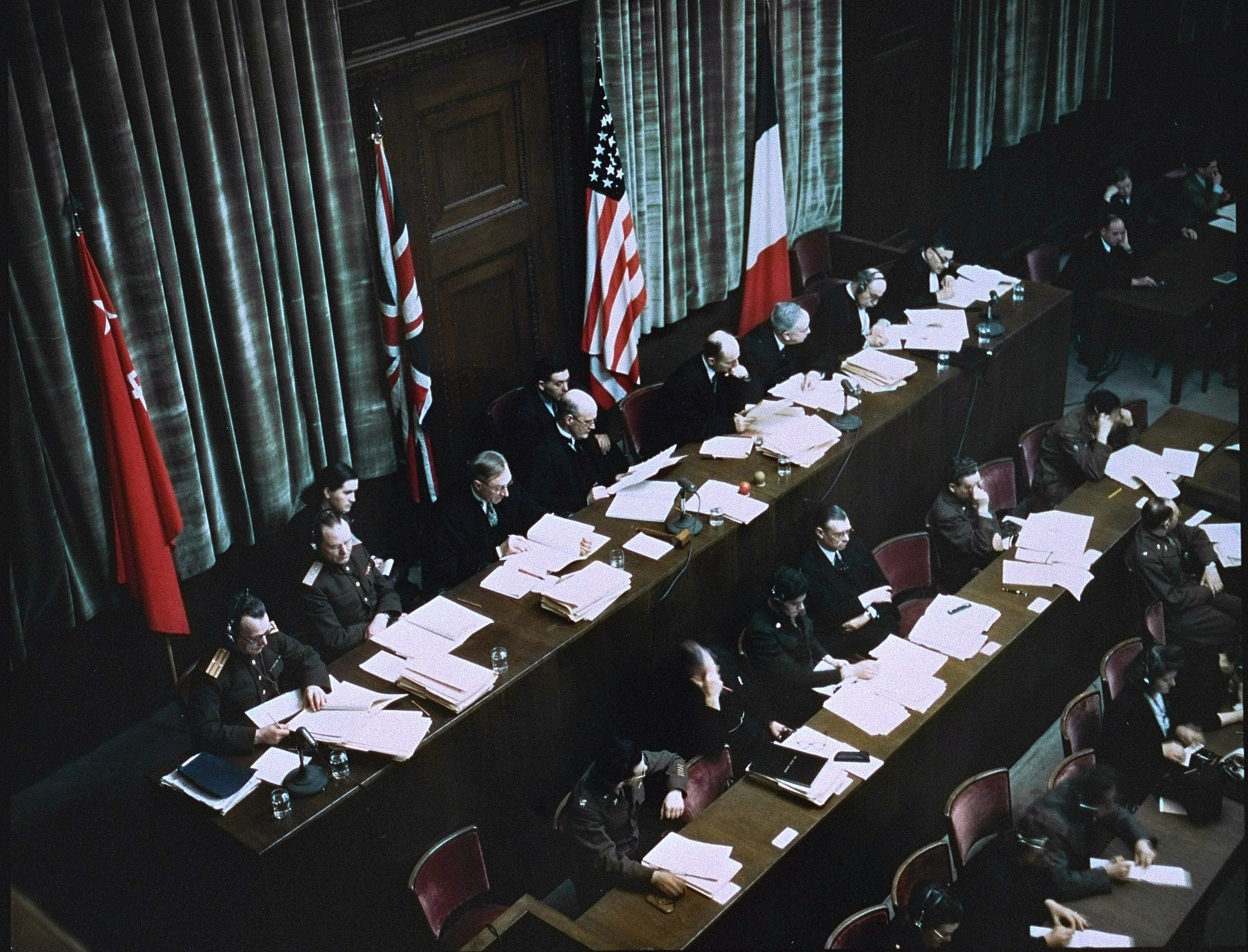 see title